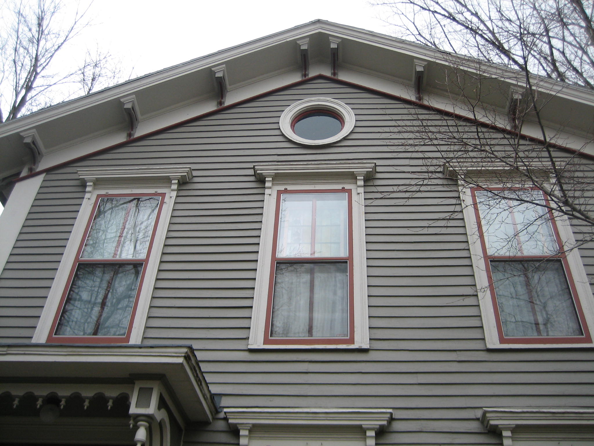 Ruben M. Benjamin House, Bloomington, Illinois. Within the boundaries of the East Grove Street Historic District but individually listed on the U.S. National Register of Historic Places.